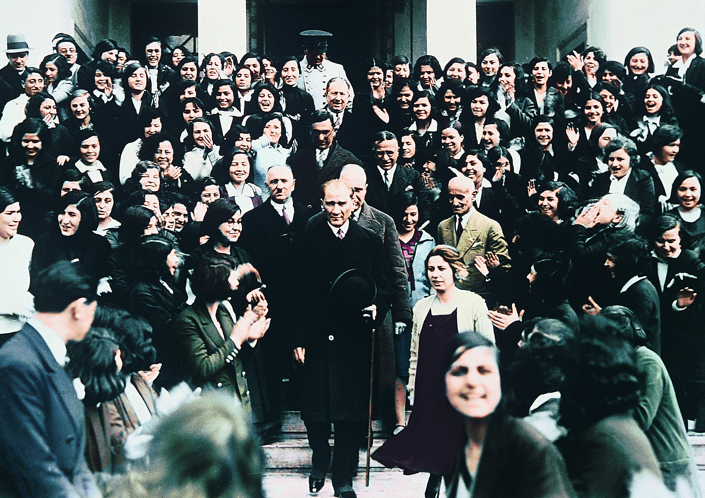 Atatürk visits Izmir High School for Girls (1 February 1931). Kemal Atatürk (or alternatively written as Kamâl Atatürk, Mustafa Kemal Pasha until 1934, commonly referred to as Mustafa Kemal Atatürk; 1881 – 10 November 1938) was a Turkish field marshal, revolutionary statesman, author, and the founding father of the Republic of Turkey, serving as its first President from 1923 until his death in 1938. He undertook sweeping progressive reforms, which modernized Turkey into a secular, industrial nation. Ideologically a secularist and nationalist, his policies and theories became known as Kemalism. Due to his military and political accomplishments, Atatürk is regarded as one of the most important political leaders of the 20th century.